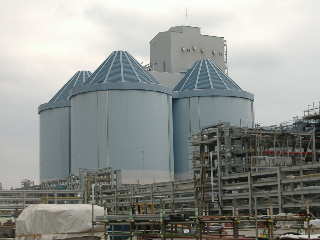 J-Power Isogo Thermal Power Station,Coal silo(Yokohama, Japan)